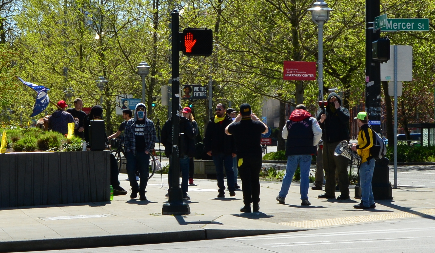 Protest against government-imposed quarantine/social distancing, southeast corner of Fifth and Mercer, Seattle, Washington, U.S.